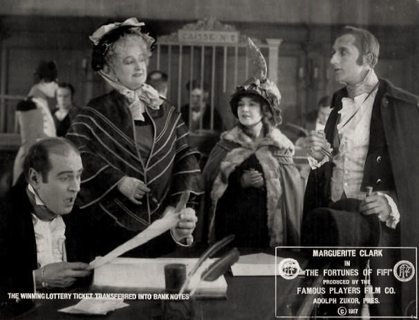 Left to right: Jean Del Val, Kate Lester, Marguerite Clark, and John St. Polis in The Fortunes of Fifi (1917) - publicity still (cropped).